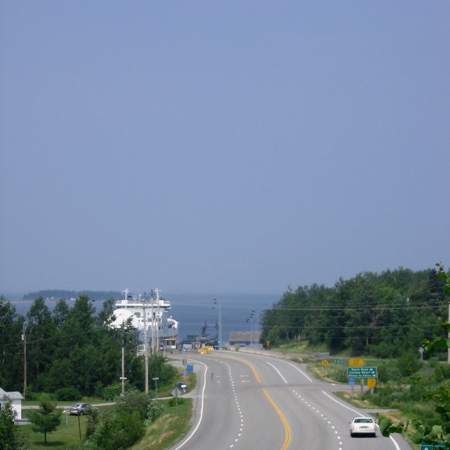 Photo of highway terminus in Caribou NS